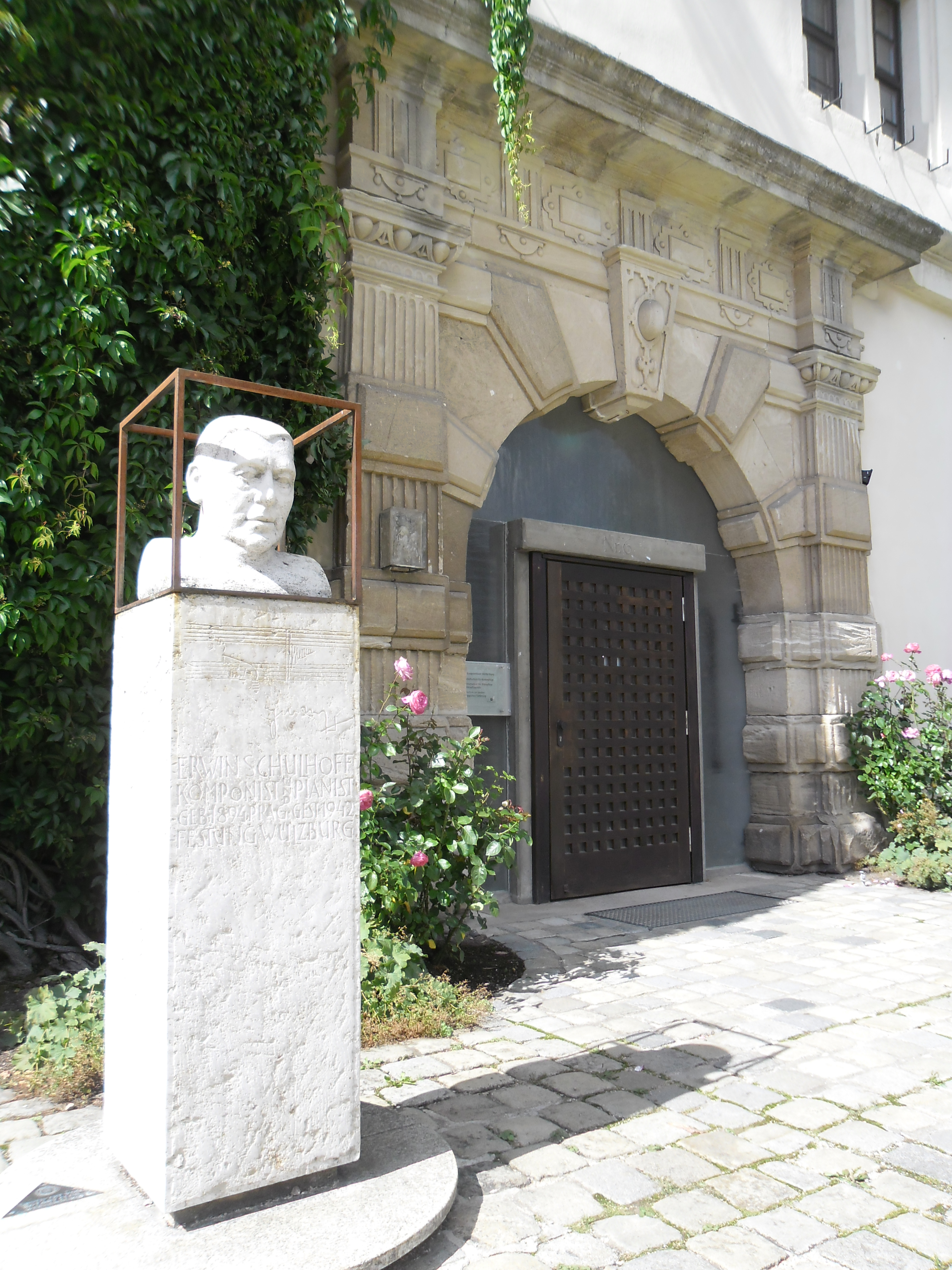 The bust of Erwin Schulhoff at the fortress Wülzburg near Weißenburg in Bayern was created by Reinhart Fuchs and inaugurated on 2 October 2004. It commemorates the death of the composer and pianist Erwin Schulhoff on 18 August 1942 in the former internment camp Wülzburg.